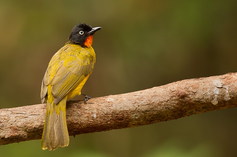 Flame-throated bulbul at Dandeli, India